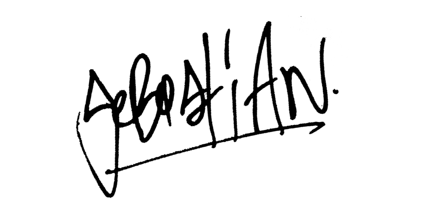 The signature of SebastiAn (alias Sebastian Akchoré)